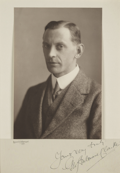 Creator: Elsie H. Anderson Date: 1918 Format: Photograph; bromide print Material: Paper Collection: The Royal Photographic Society Collection at the National Media Museum Inventory no: 2003-5001/2/22862 Blog post: Snappy 5th birthday Flickr Commons G. Auborne Clarke worked at Aberdeen Observatory and was known for his photographs of weather conditions.